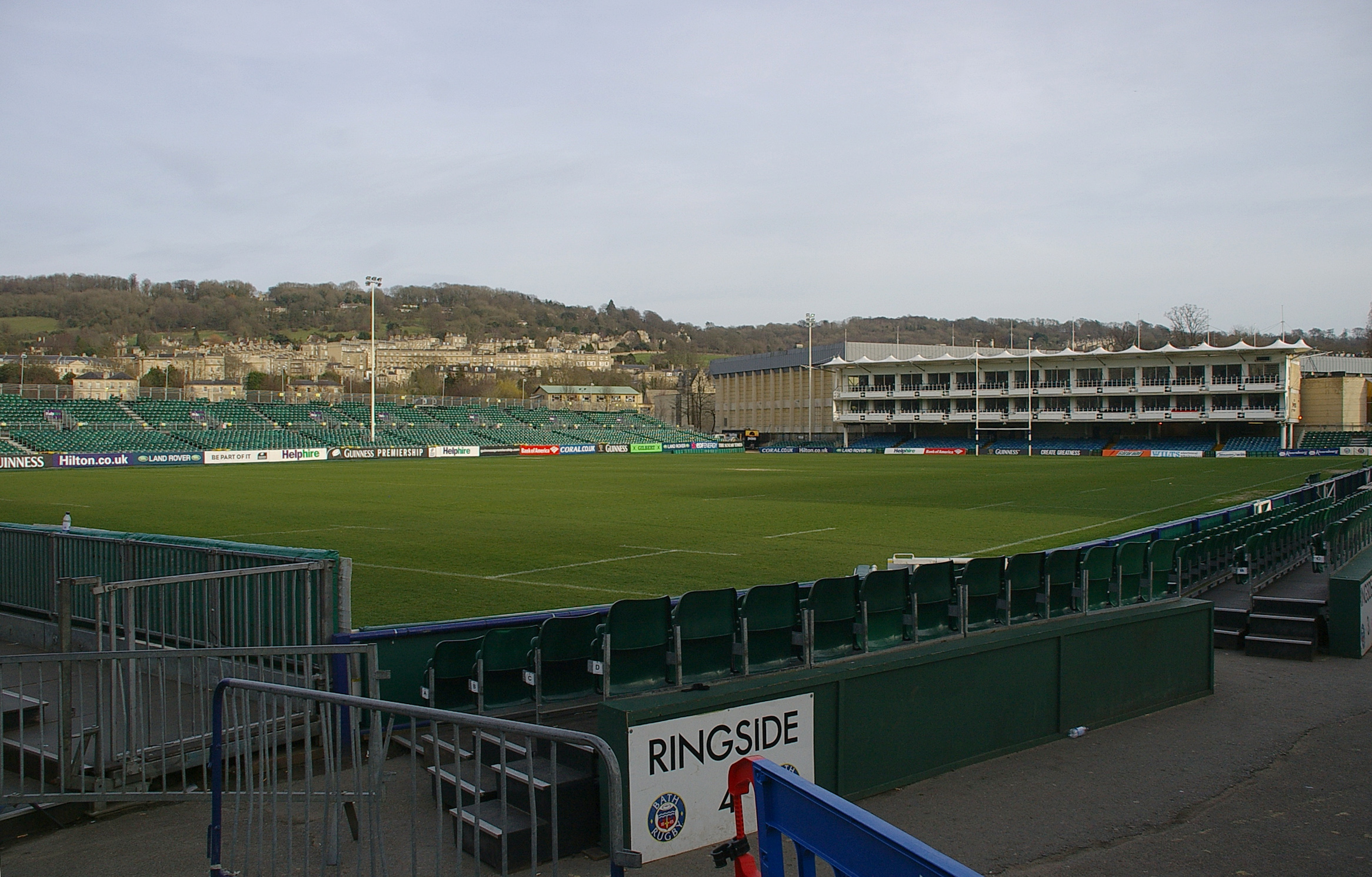 The Bath Recreation Ground